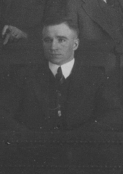 Officers of the Elks Anchorage Lodge, No. 1351, ca. 1924. Charles Bush is seated on the left in the first row; seated next to him in the center of the front row is James Delaney, exalted ruler of the Anchorage Lodge in 1924 who later was also a mayor of Anchorage.